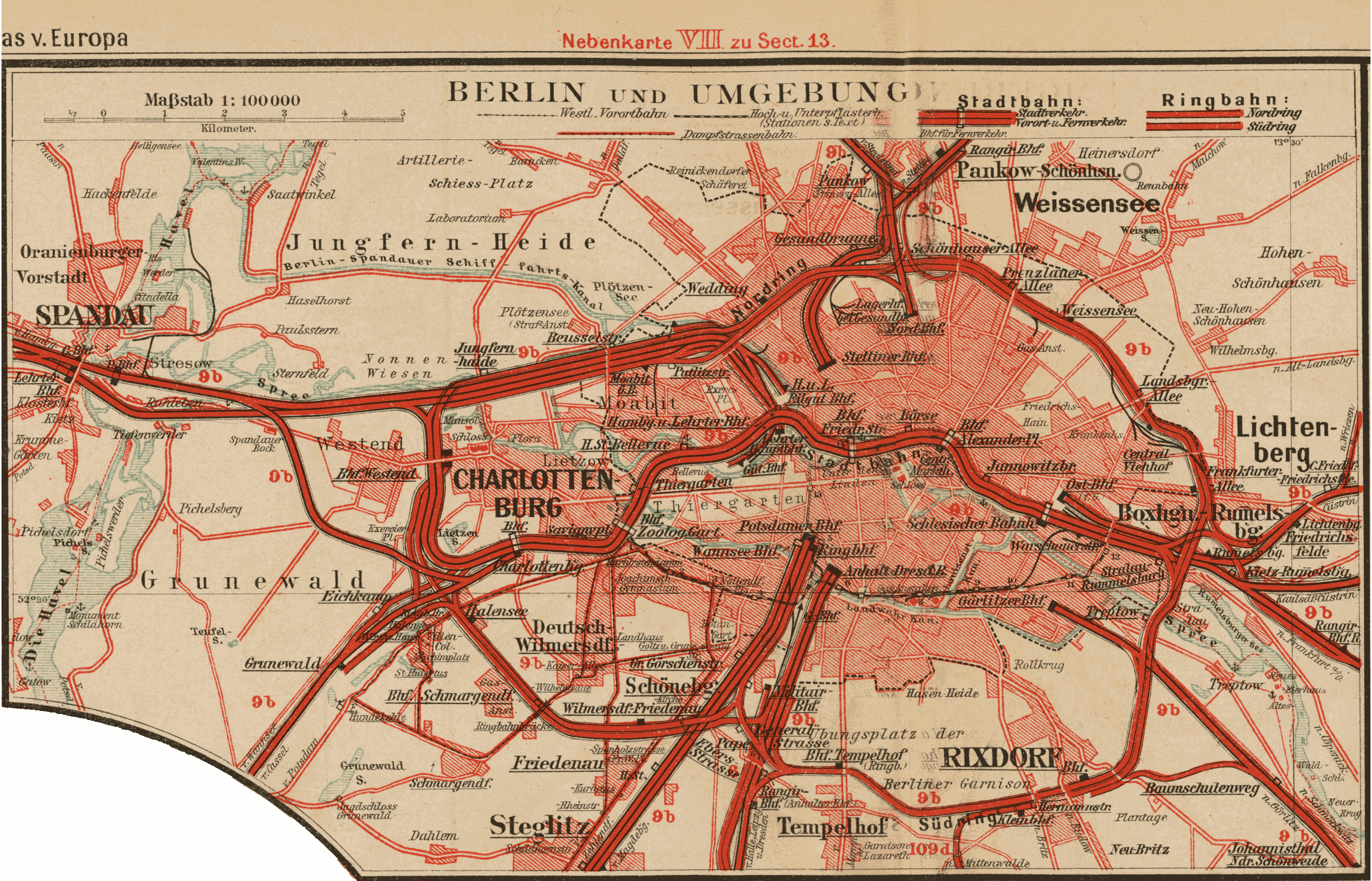 Berlin railway map